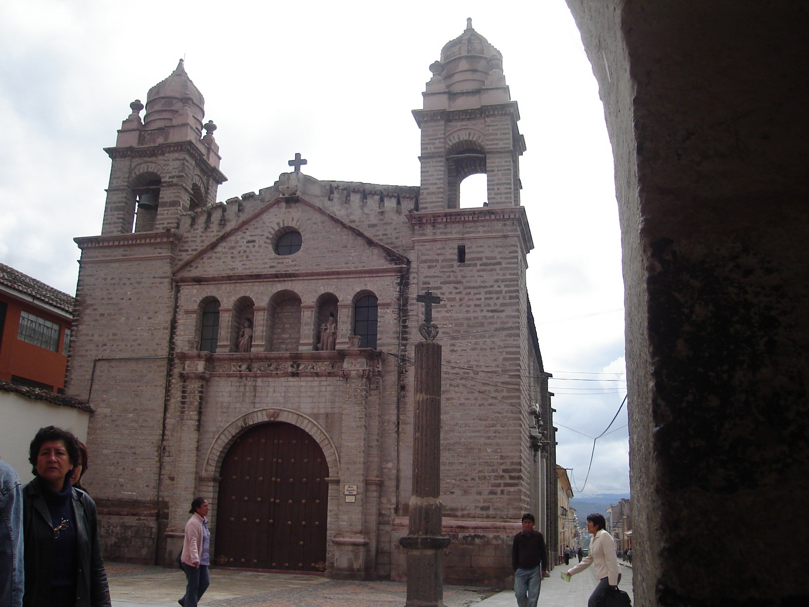 Photos of Ayacucho taken by E. Zambrano